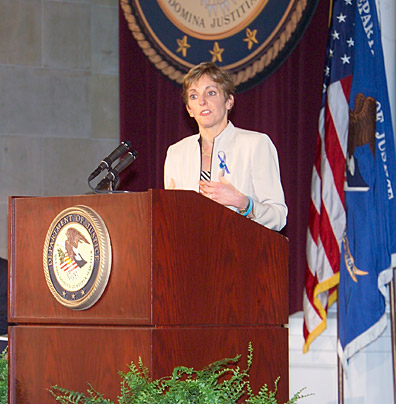 Trisha Meili, the victim in the "Central Park Jogger" case, giving a speech at National Crime Victims' Rights Week.